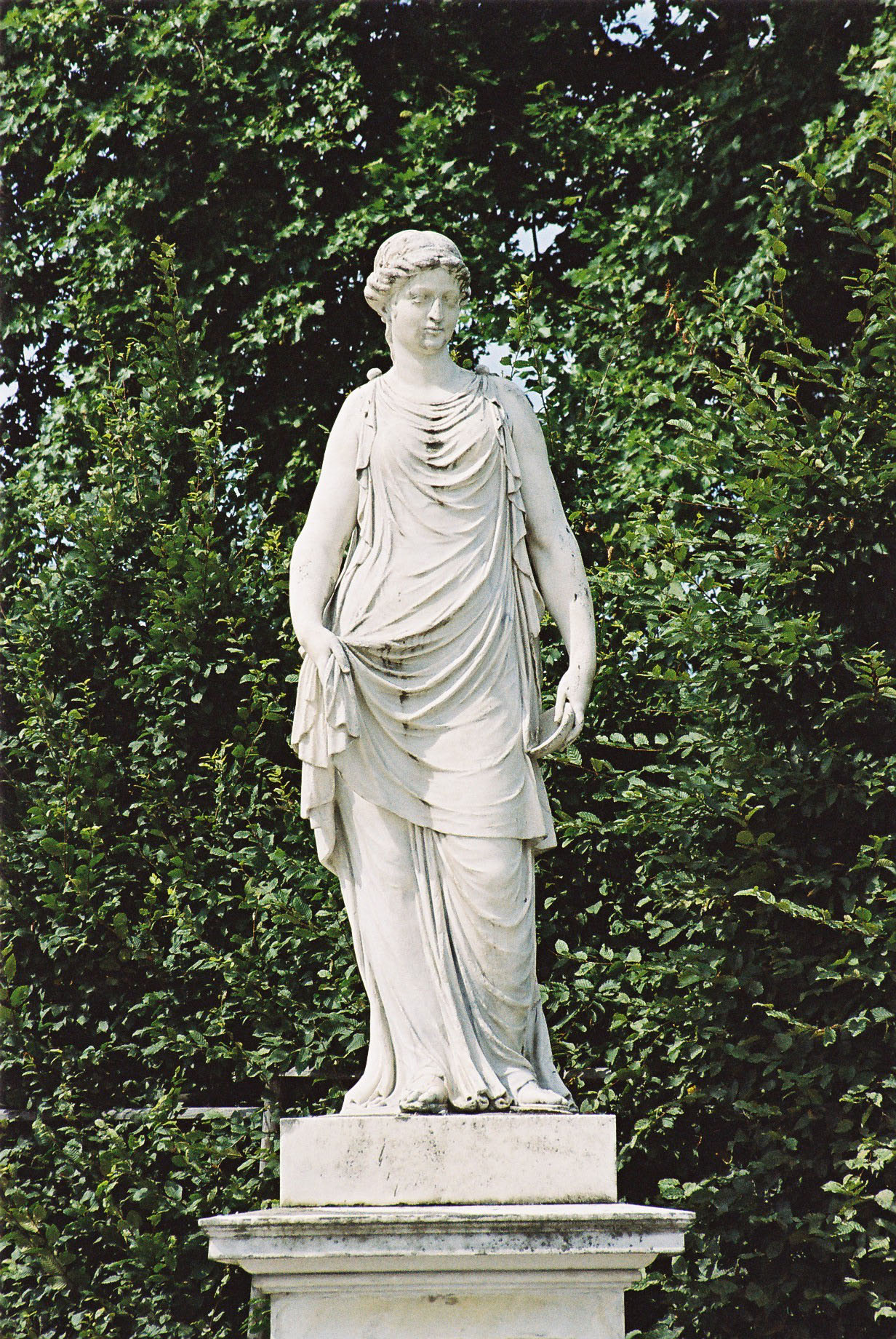 Vienna, Schönbrunn gardens, statue Priestess with a bowl for libation